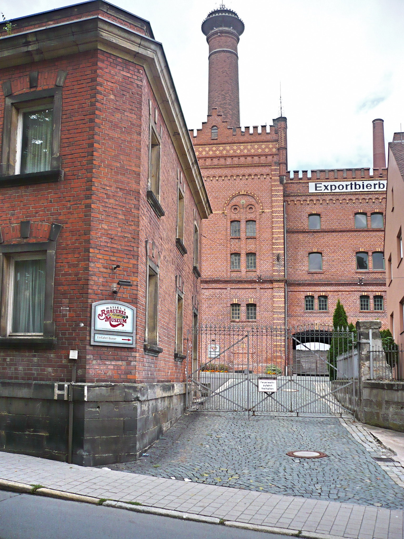 Maisel's brewery and cooperage museum, Bayreuth, Germany.